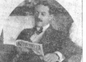 Picture of Herman Cameron Norman